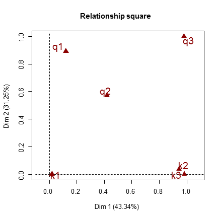 MFA. Test data. Relationship square.